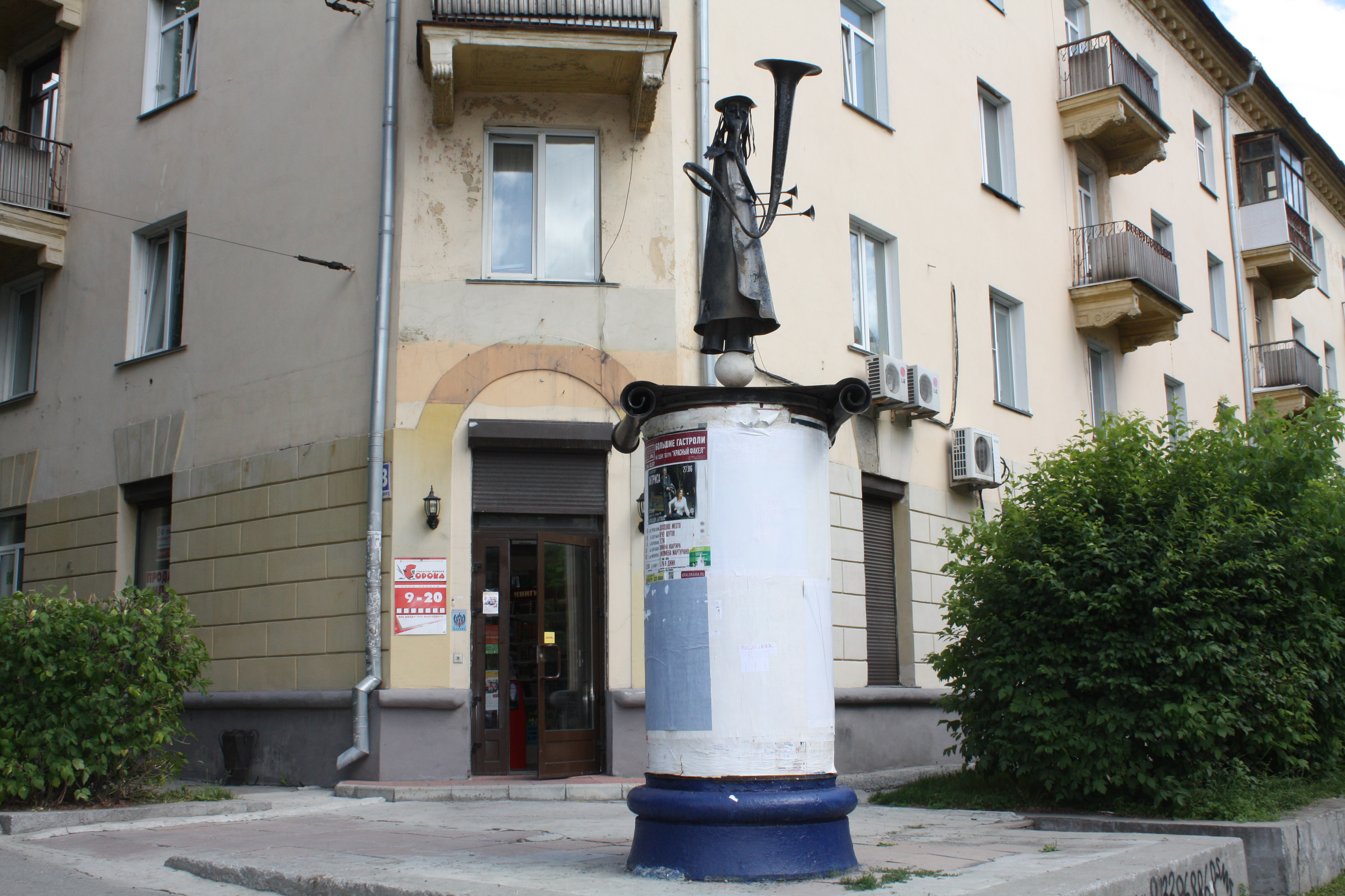 Advertising column, Kalininsky District, Novosibirsk.